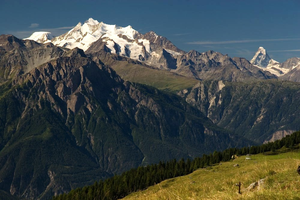 The Dom and the Matterhorn (from Riederalp), Valais Alps